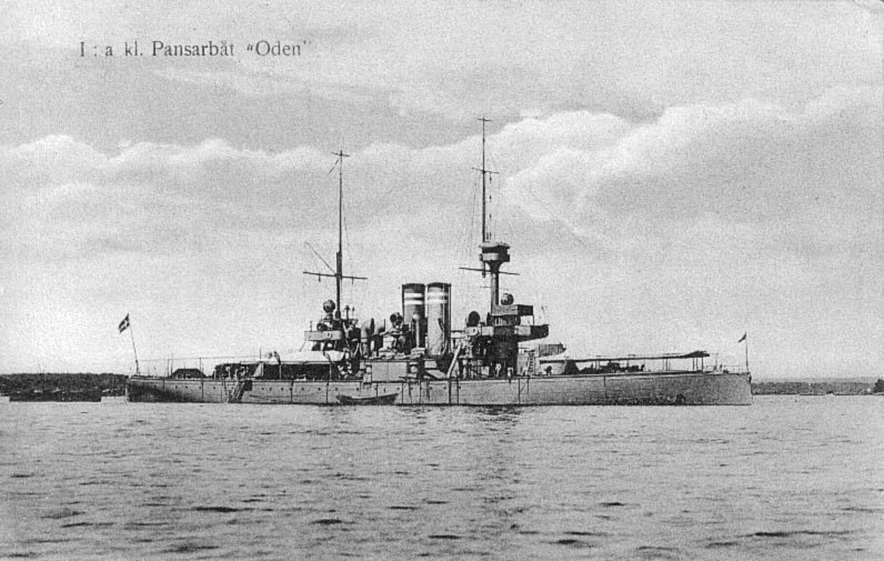 Picture of the Swedish battleship HMS Oden.